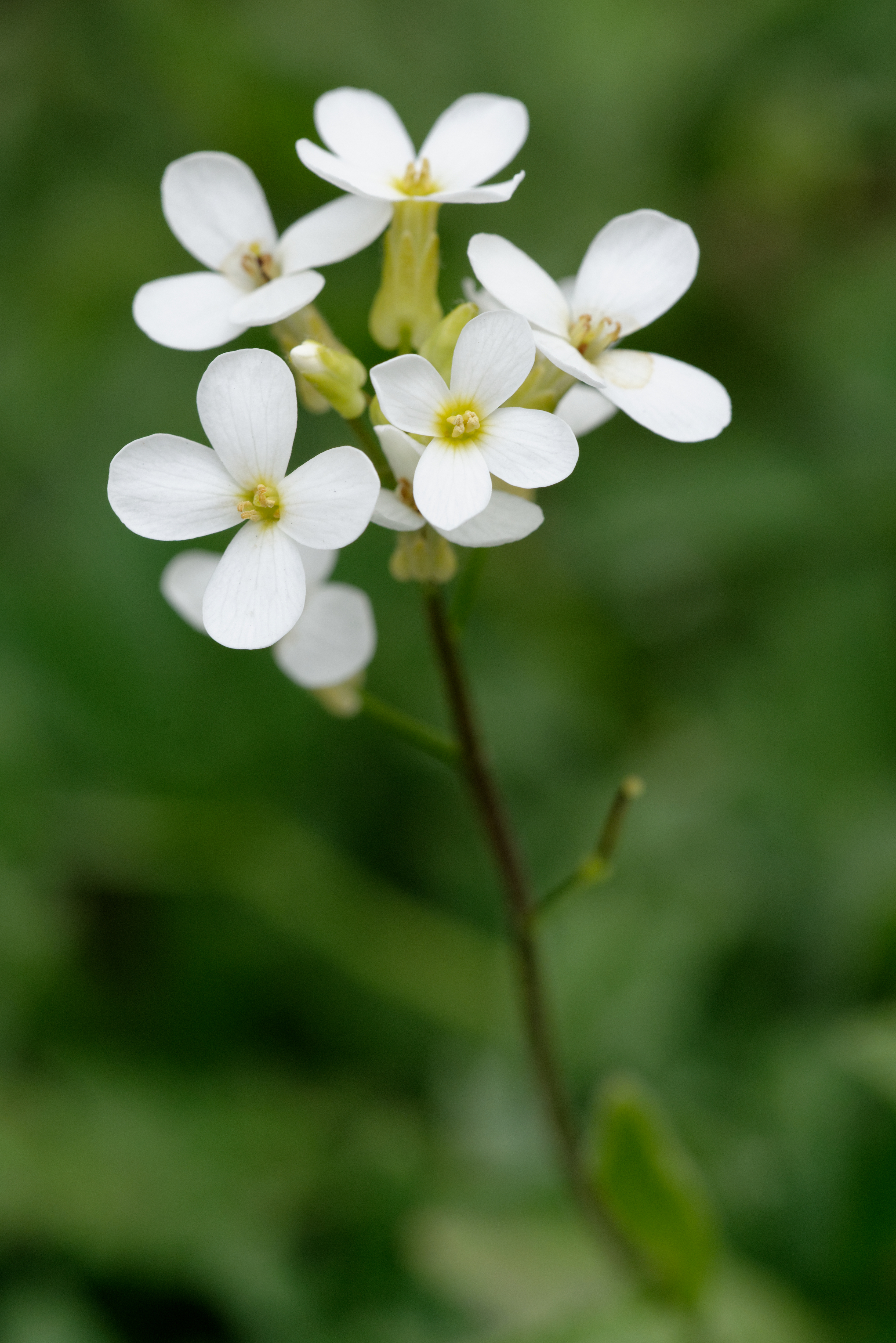 Thale cress (Arabidopsis thaliana), botanic school of the Jardin des Plantes of Paris, France.